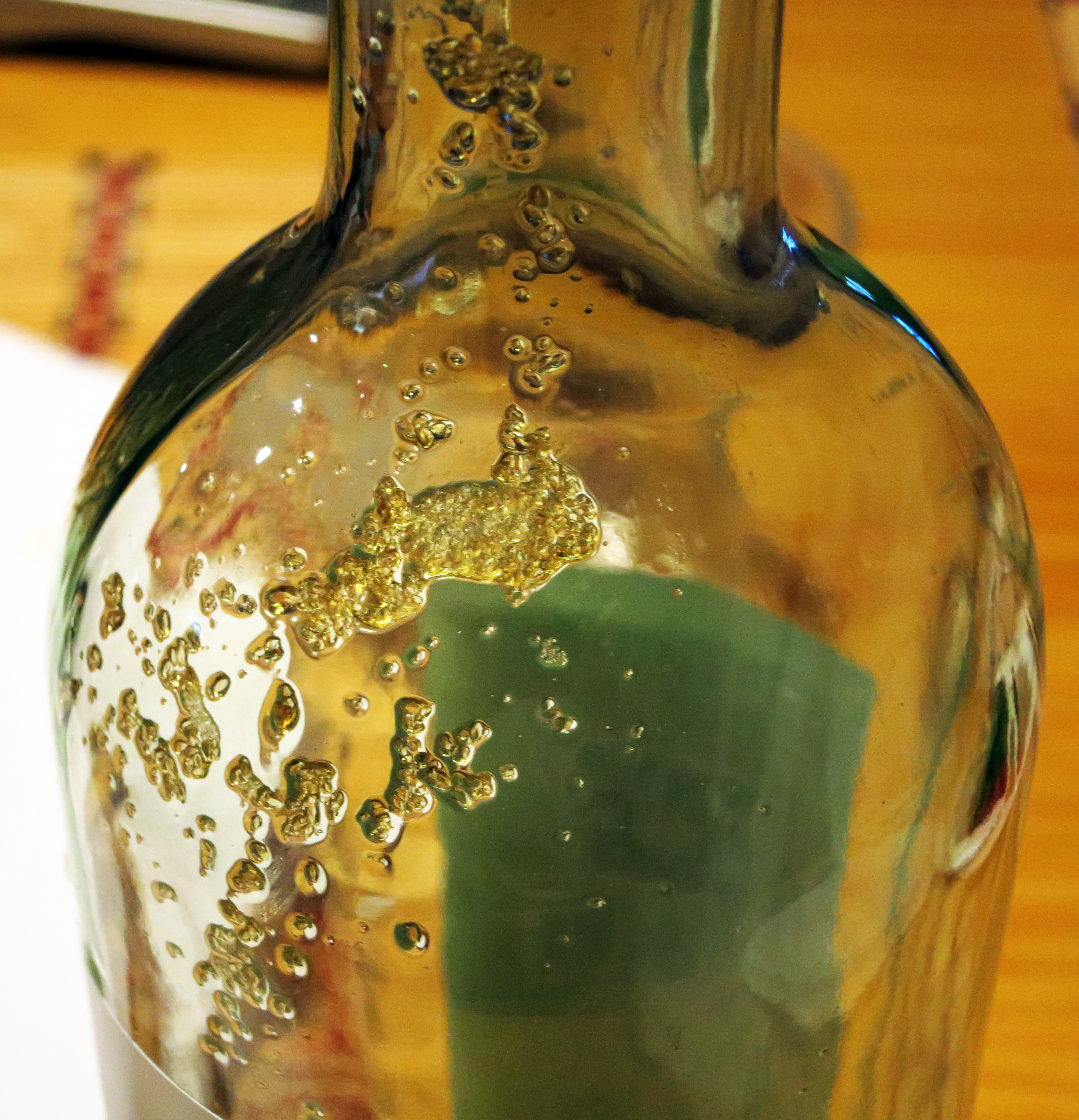 Potassium bitartrate in an empty white wine bottle after pouring out